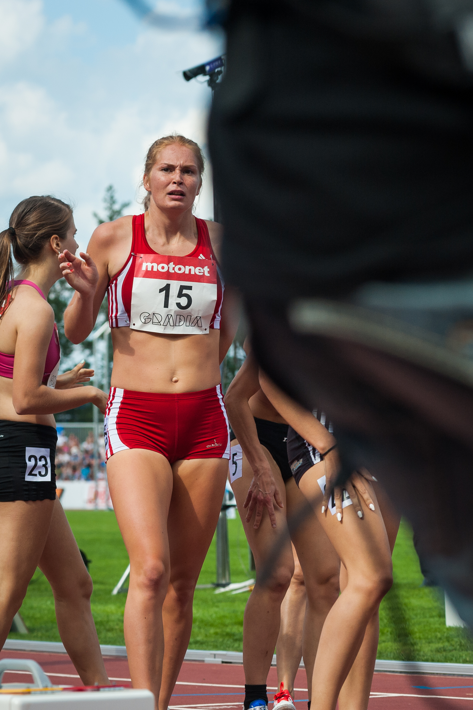 Women's 800 m competition at the 2018 Kalevan Kisat, the Finnish championships in athletics, in Jyväskylä, Finland.